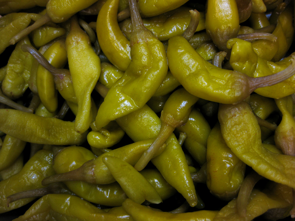 Camera: Canon IXUS 90 IS Author: A.Y.B.